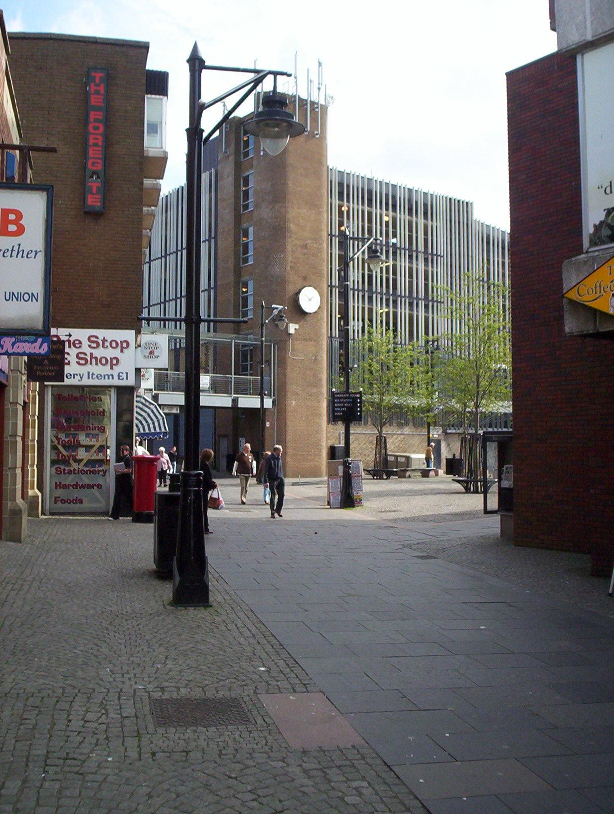 Multi-storey carpark in Kilmarnock, Scotland